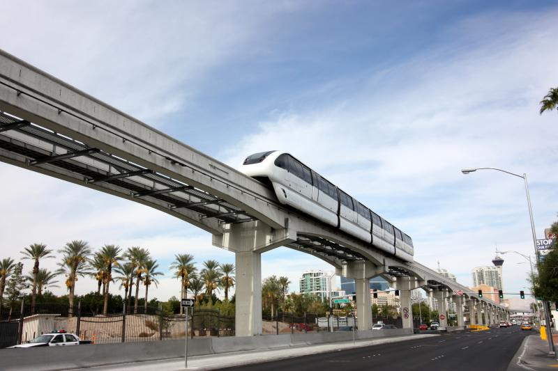 Las Vegas Monorail near the Las Vegas Convention Center